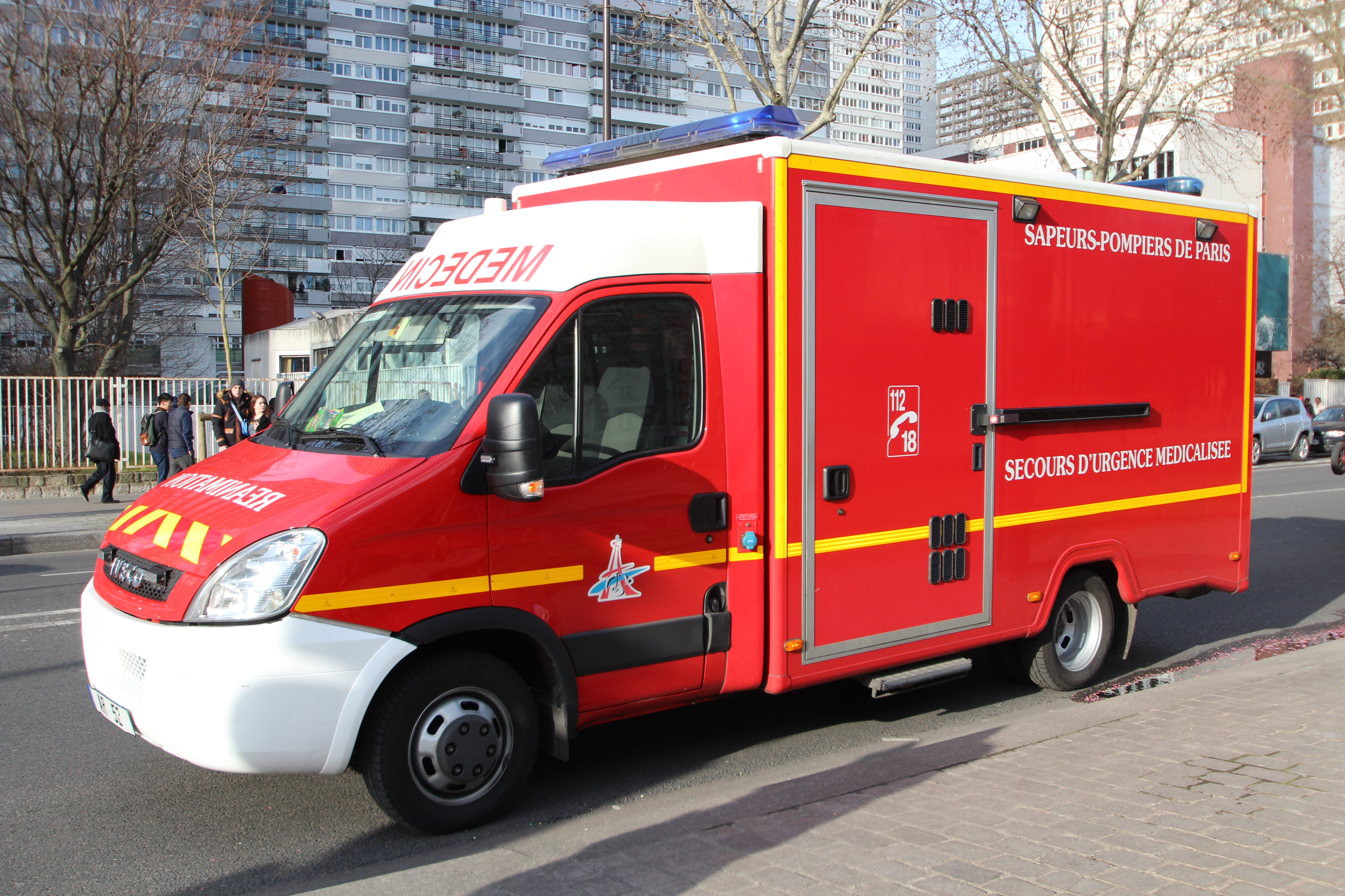 Picture of the Chinese New Year 2015 on Masséna boulevard in Paris, France. Object location48° 49′ 12.94″ N, 2° 21′ 54.25″ E